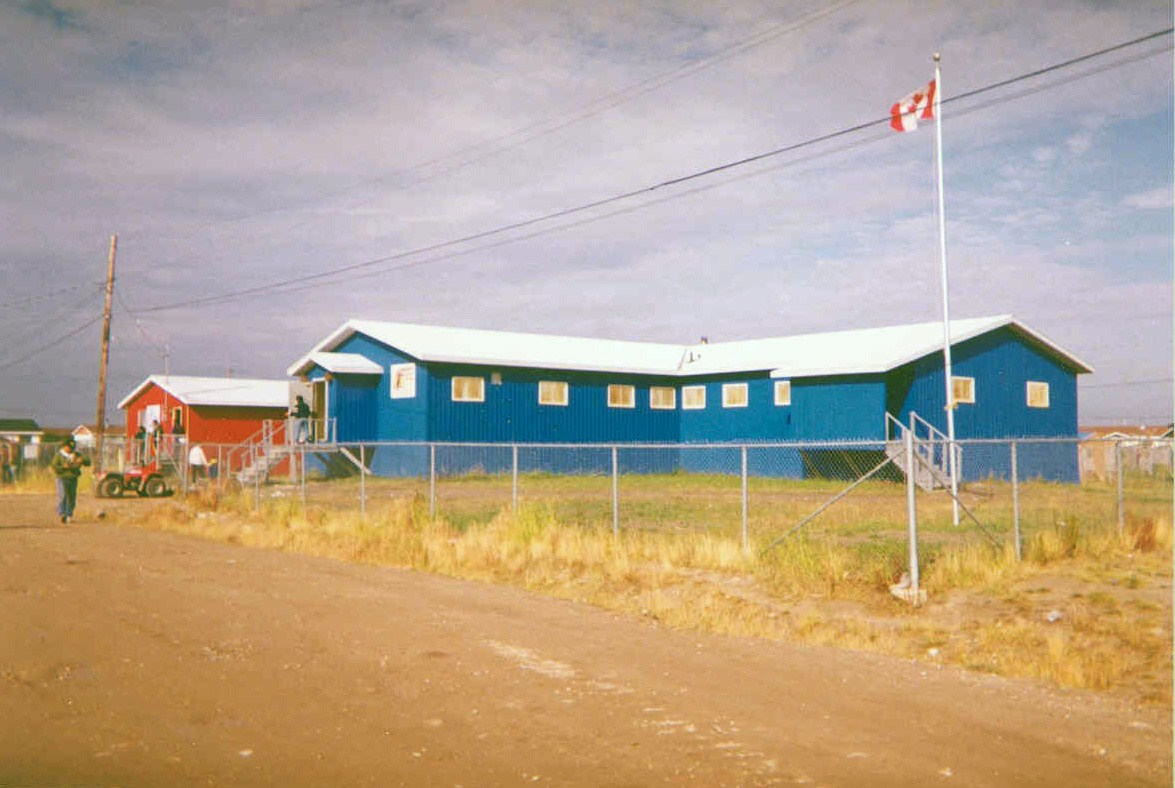 Office of the Attawapiskat First Nation in Attawapiskat, Ontario. Red building at left is post office. This photograph was taken in the early 1990s.